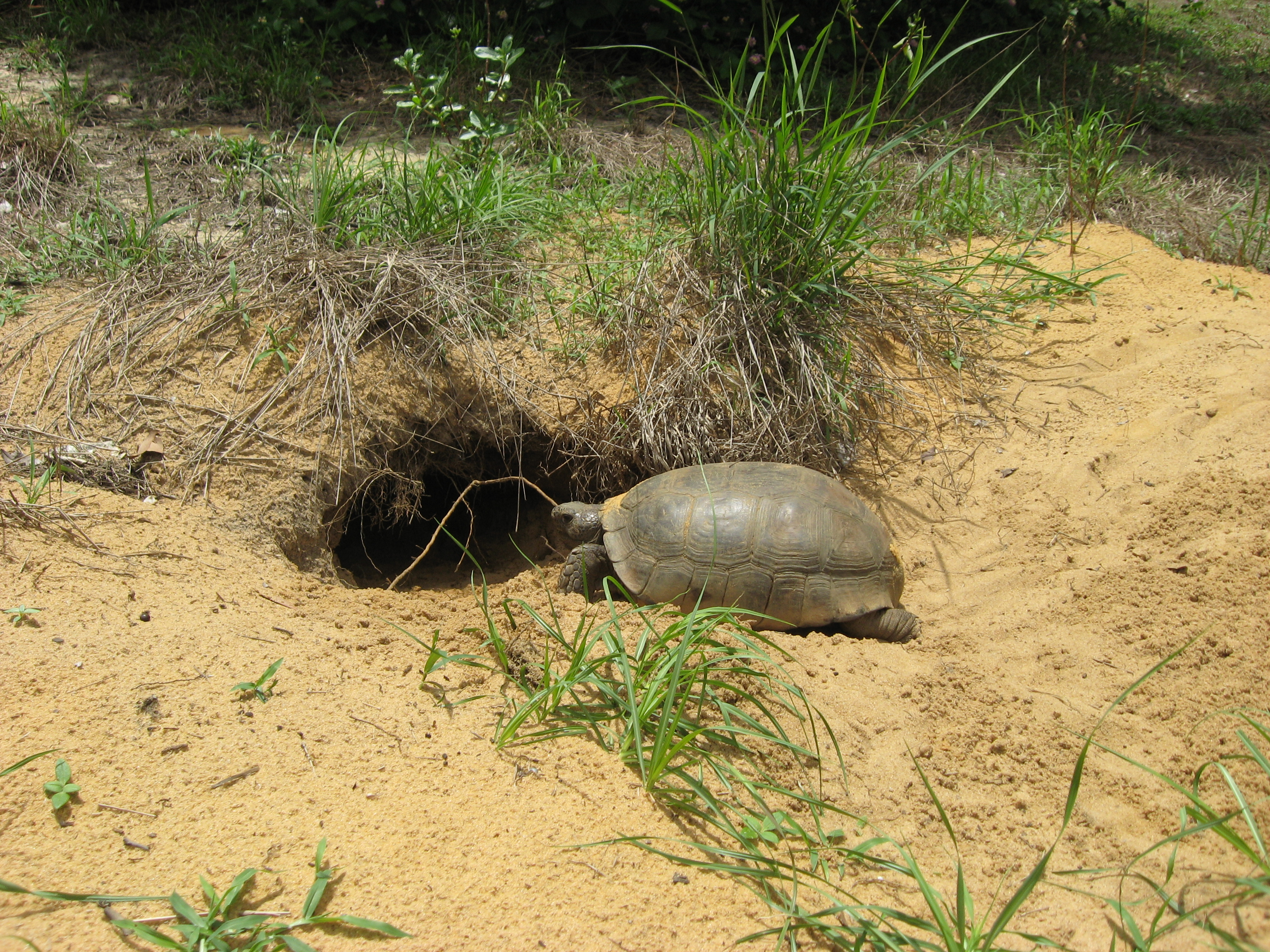 I saw this gopher tortoise (Gopherus polyphemus) entering its burrow in my backyard in Fort Pierce, Florida, in the early afternoon of June 7, 2009. My name is Gary Foster, and anyone can use this image in any way they wish.